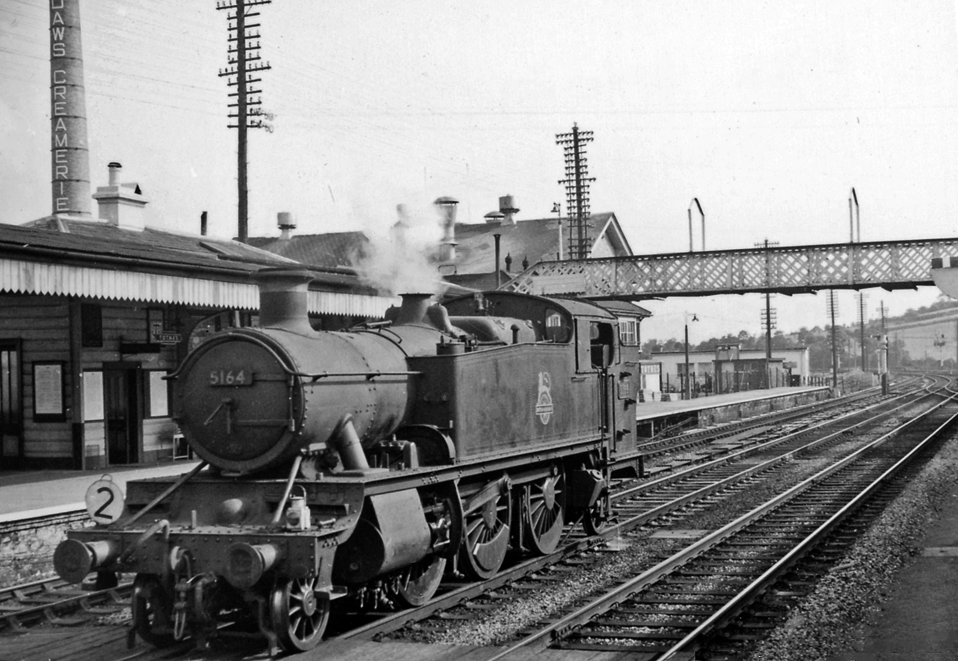 Totnes station, with 2-6-2T banker. View NE, towards Newton Abbot, Exeter etc.: ex-GW Exeter etc. - Plymouth - Penzance main line. '5101' 2-6-2T No. 5164 (built 11/30) is waiting in the centre road for the next Down train requiring banking up Rattery Bank.